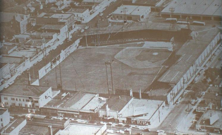 Detail of plague at site of Nicollet Park